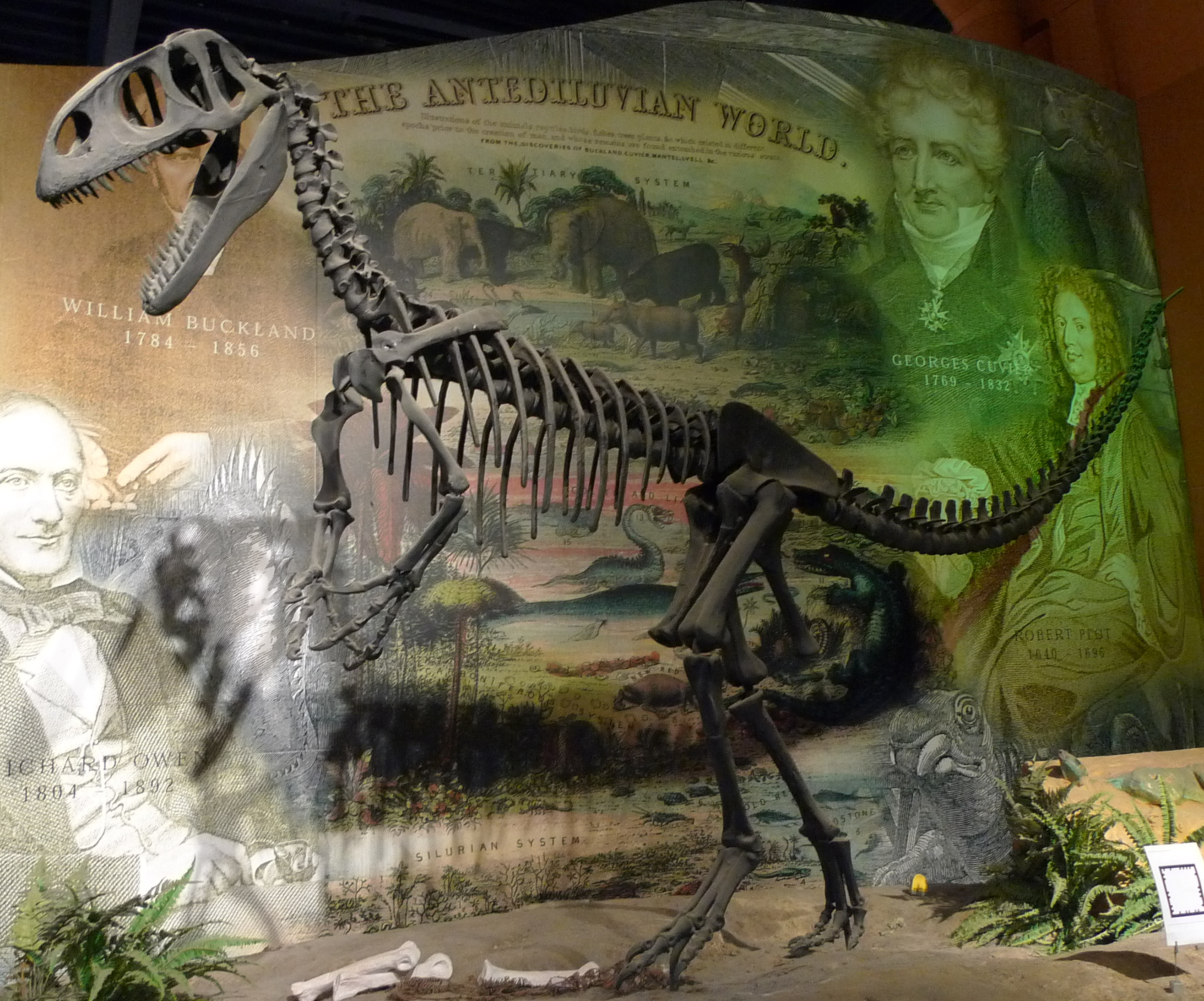 The Antediluvian World